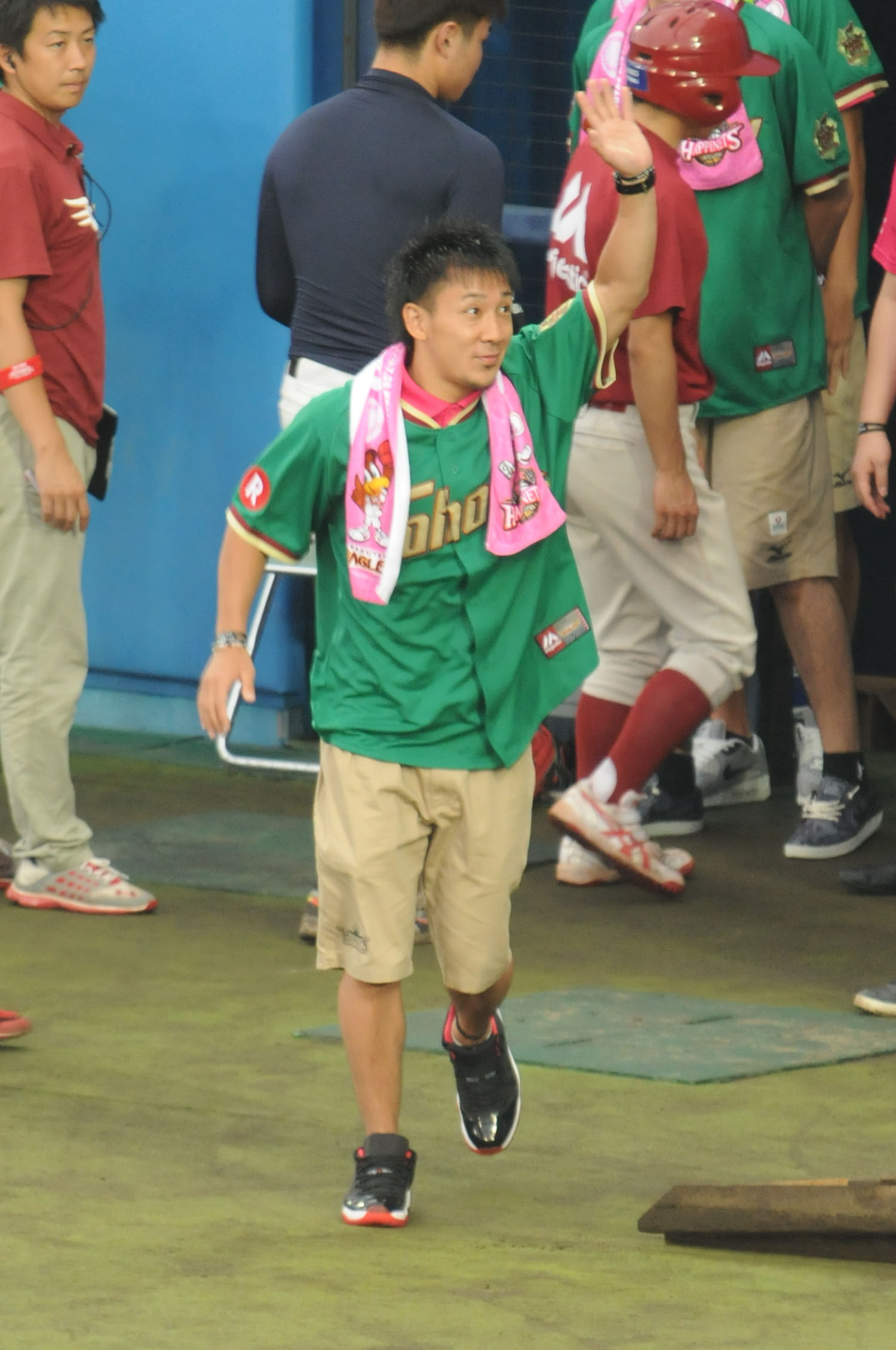 Shoya Uchimura, point guard of the Akita Northern Happinets, at Akita Prefectural Baseball Stadium.